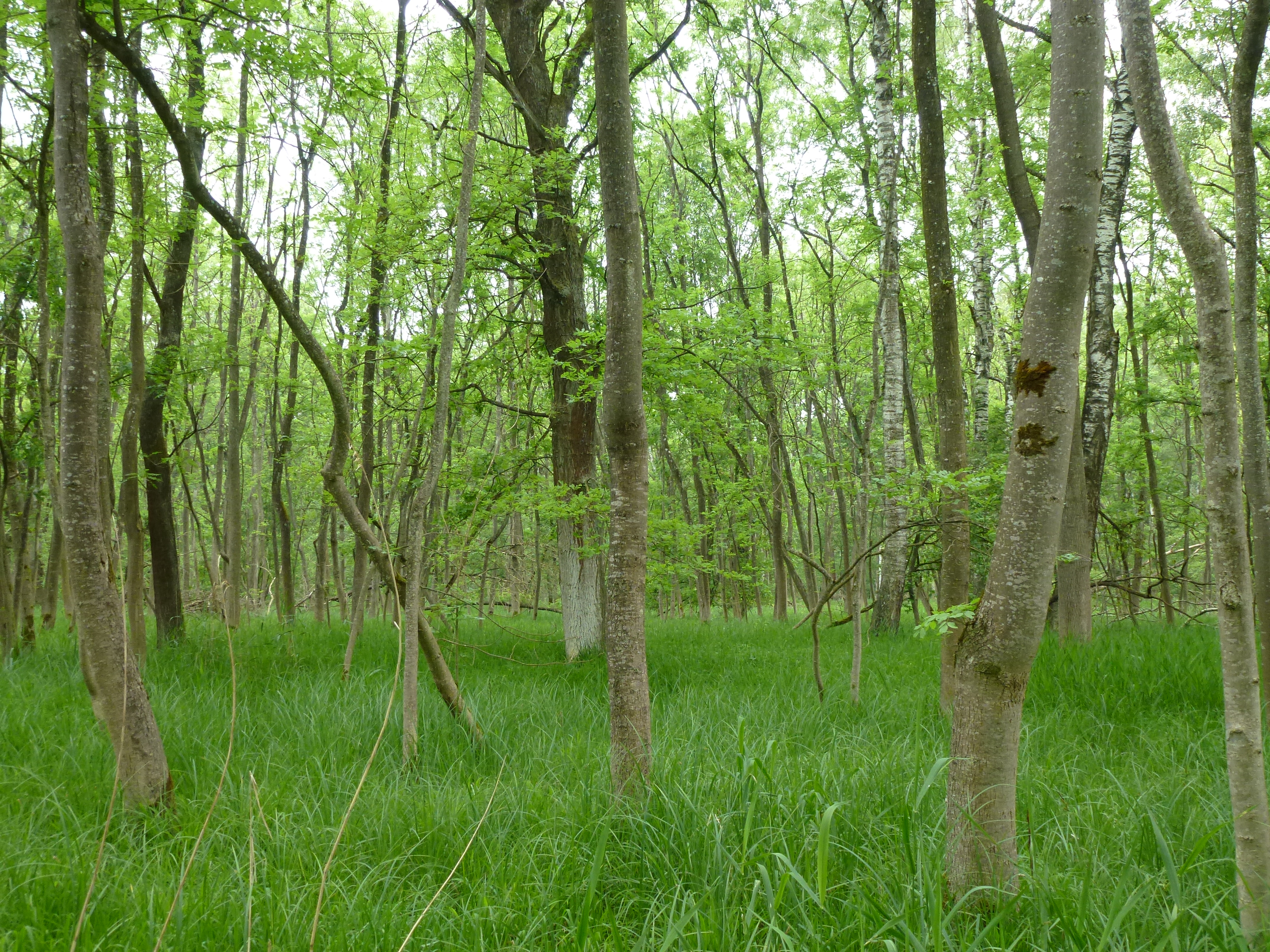 A layer of sedges under a tree population of oaks, beeches, ash-trees and birches in the nature resvere "Neugeschüttwörth" in western Bavaria near the village Gremheim